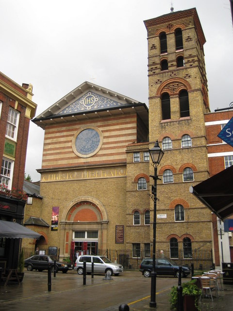 Church of England parish church of Our Most Holy Redeemer, Exmouth Market (formerly Exmouth Street), Clerkenwell, London EC1, seen from the northwest from Yardley Street. The inscription over the main church door reads Christo Liberatori, which translates as "To Christ The Redeemer".